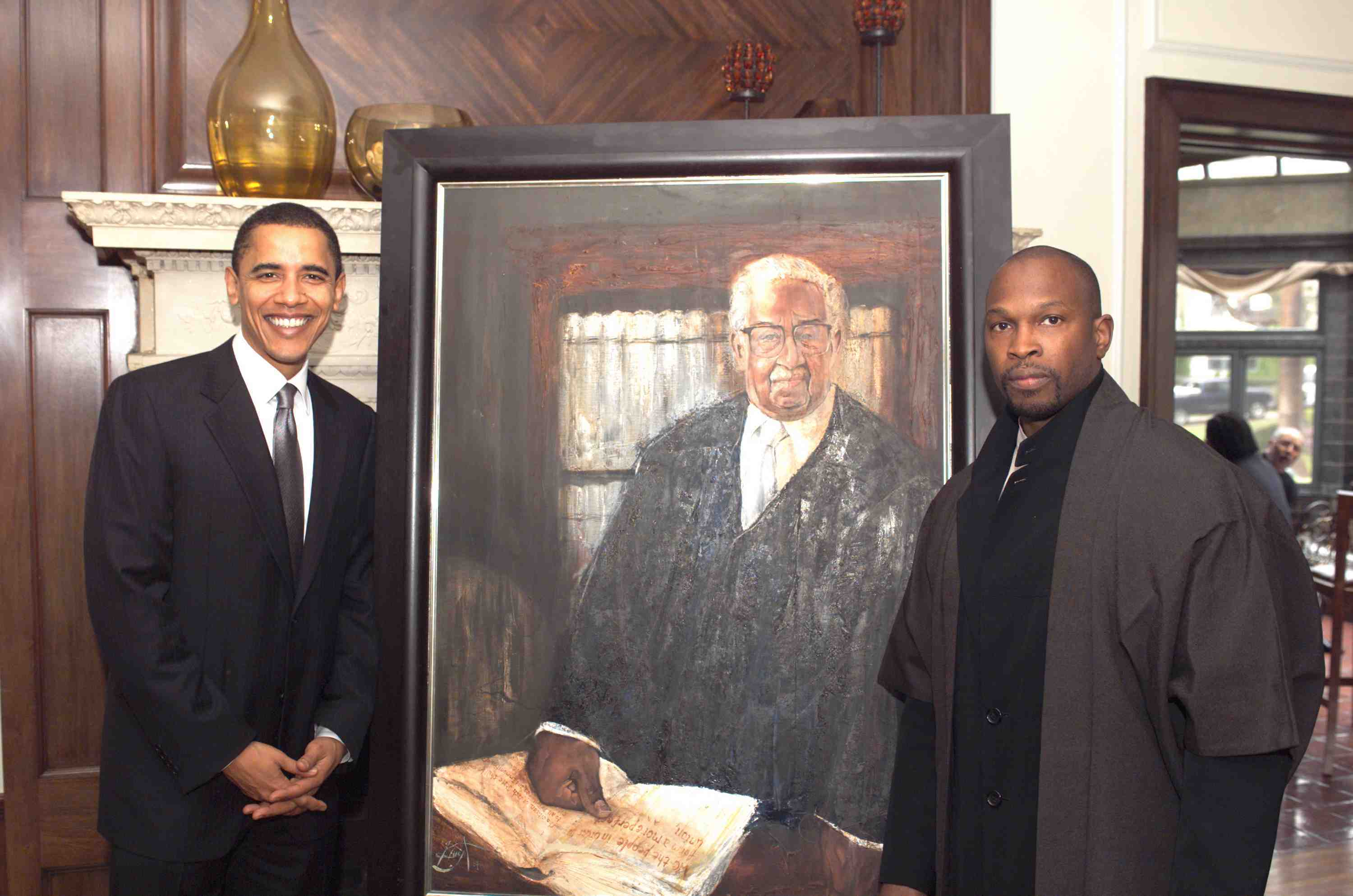 Painting in the Oval Office. Mattie Lawson